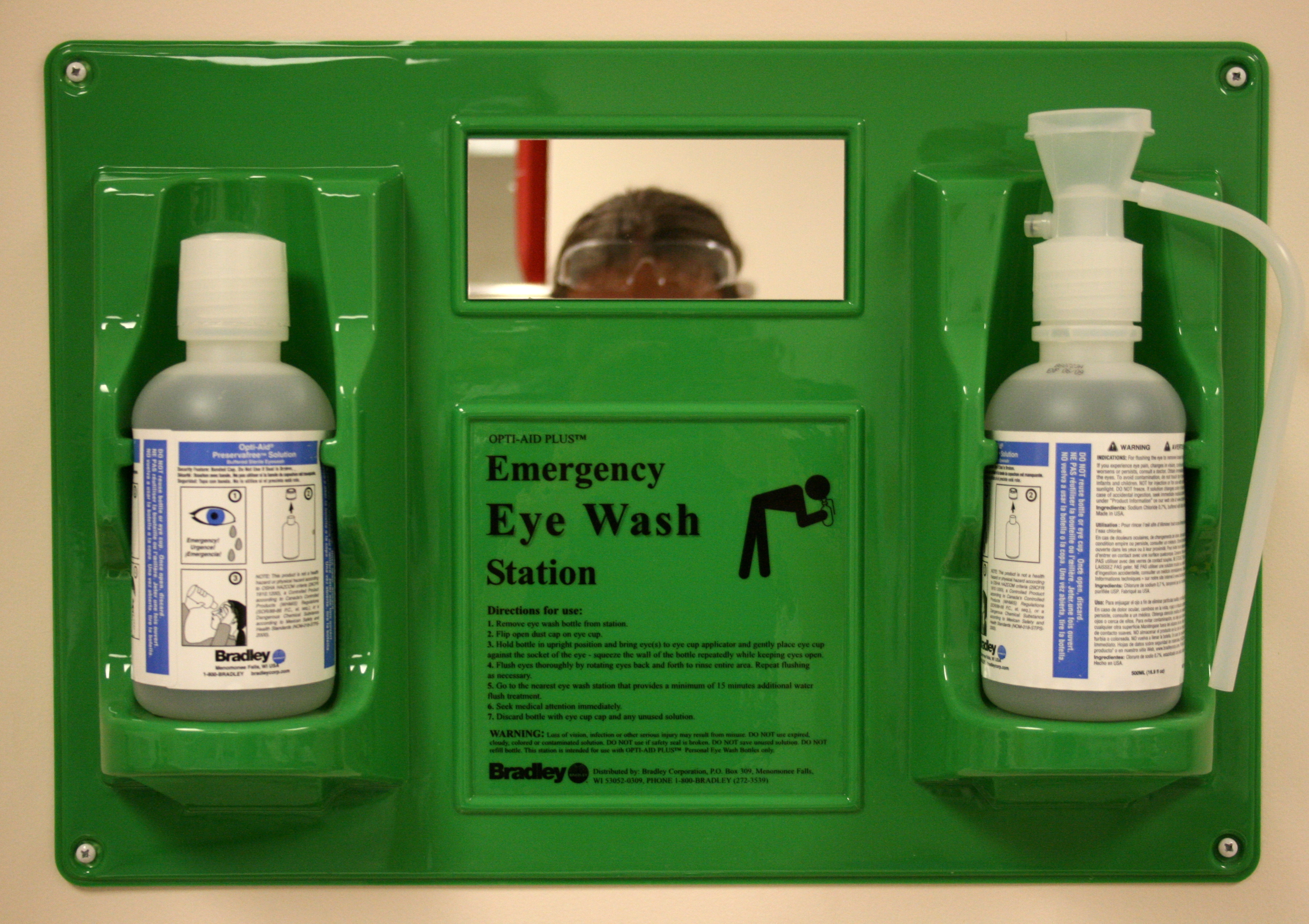 An eye wash station in a laboratory in Carrboro, North Carolina.